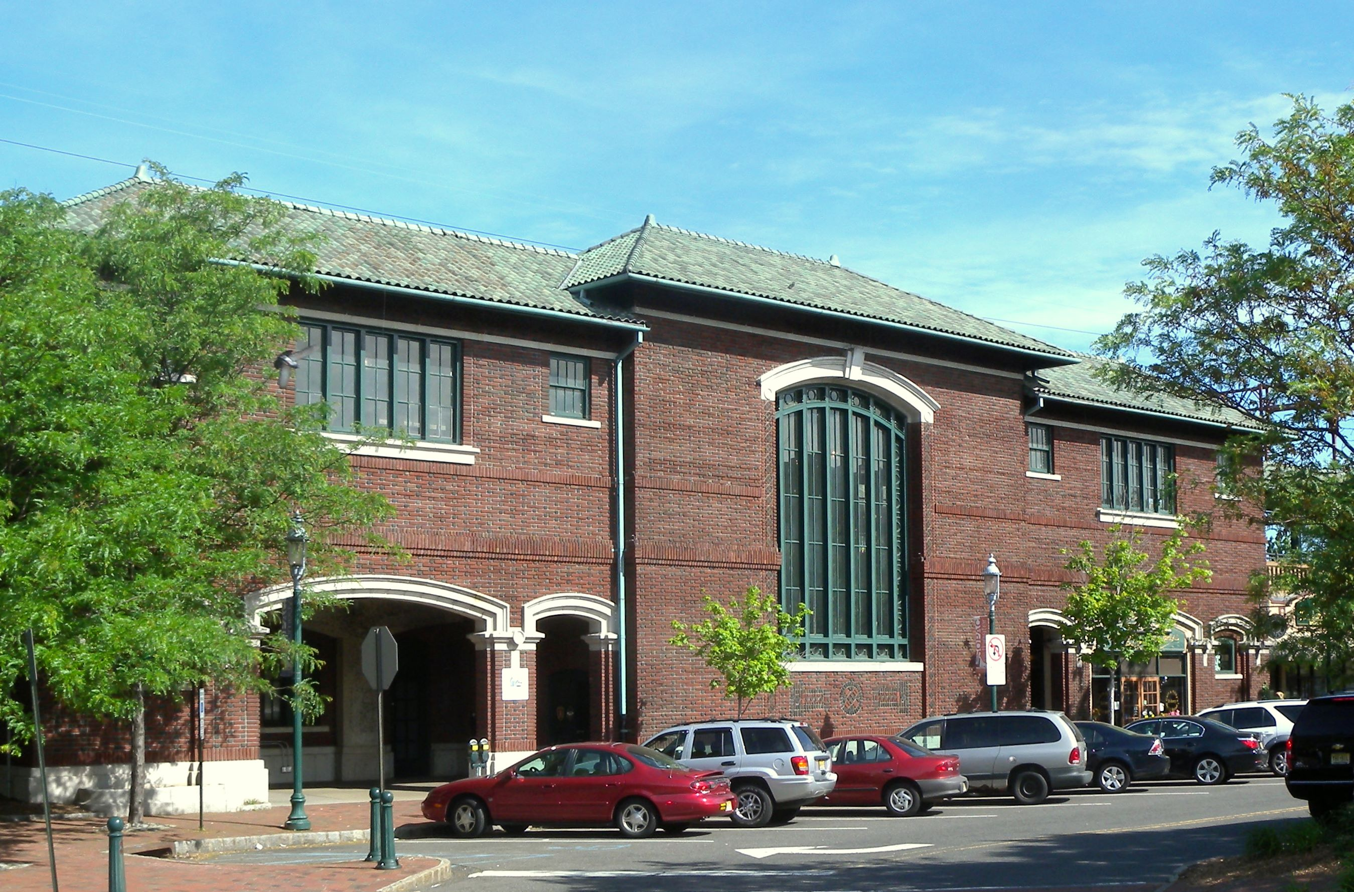 Lookng north at So Orange station on a sunny morning.